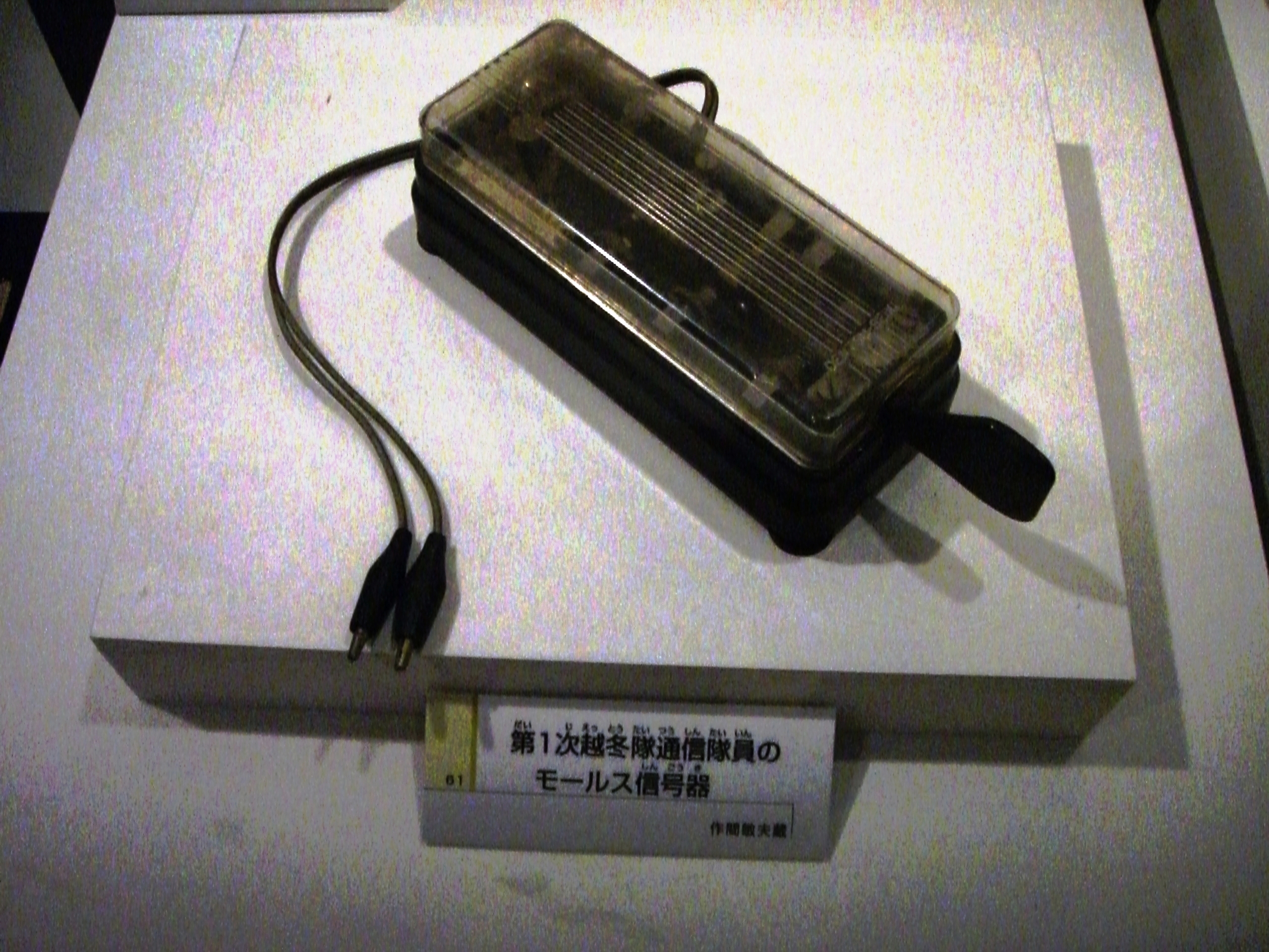 第一次南極越冬隊通信隊員のモールス信号機。ふしぎ大陸南極展2006で展示品を撮影。 Morse traffic light of first next South Pole hibernation party communication soldier.